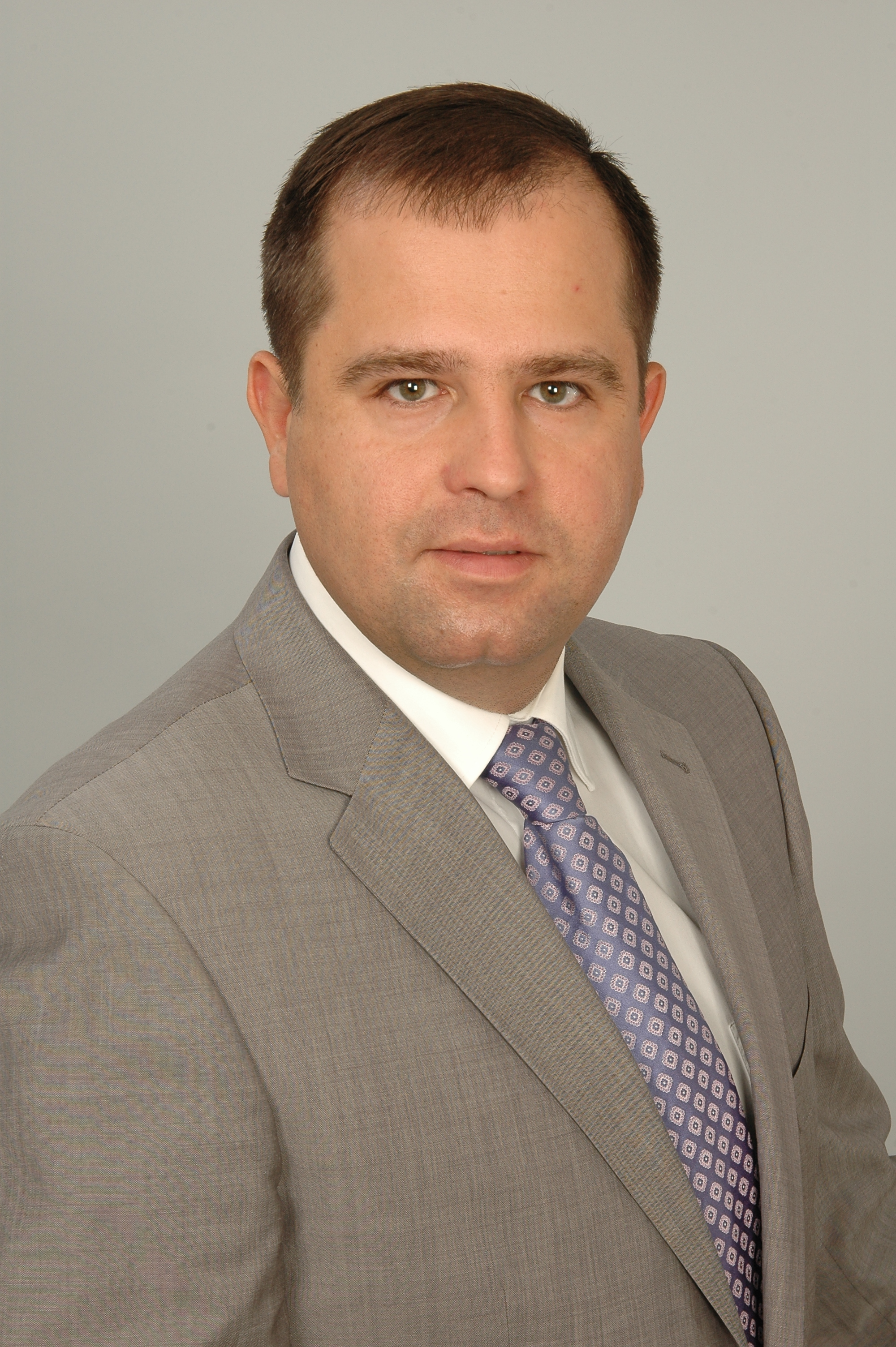 Pavlo Unguryan is a Ukrainian political and evangelical leader, currently serving as a Member of Ukrainian Parliament.